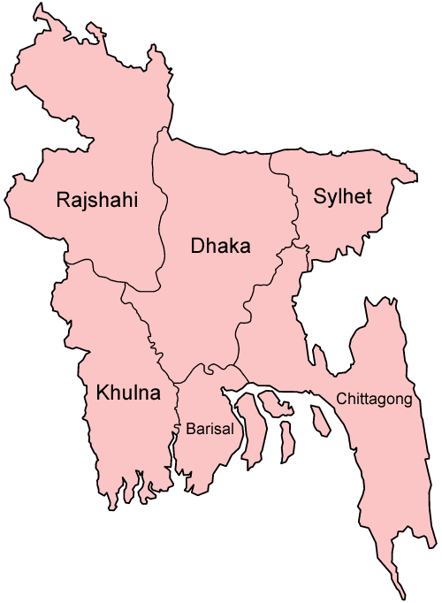 Map of the divisions of Bangladesh as they were from 1998 to 2010. Made by User:Golbez.